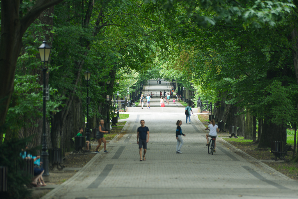 Alley, park in Pszczyna, silesian voivodeship, Poland